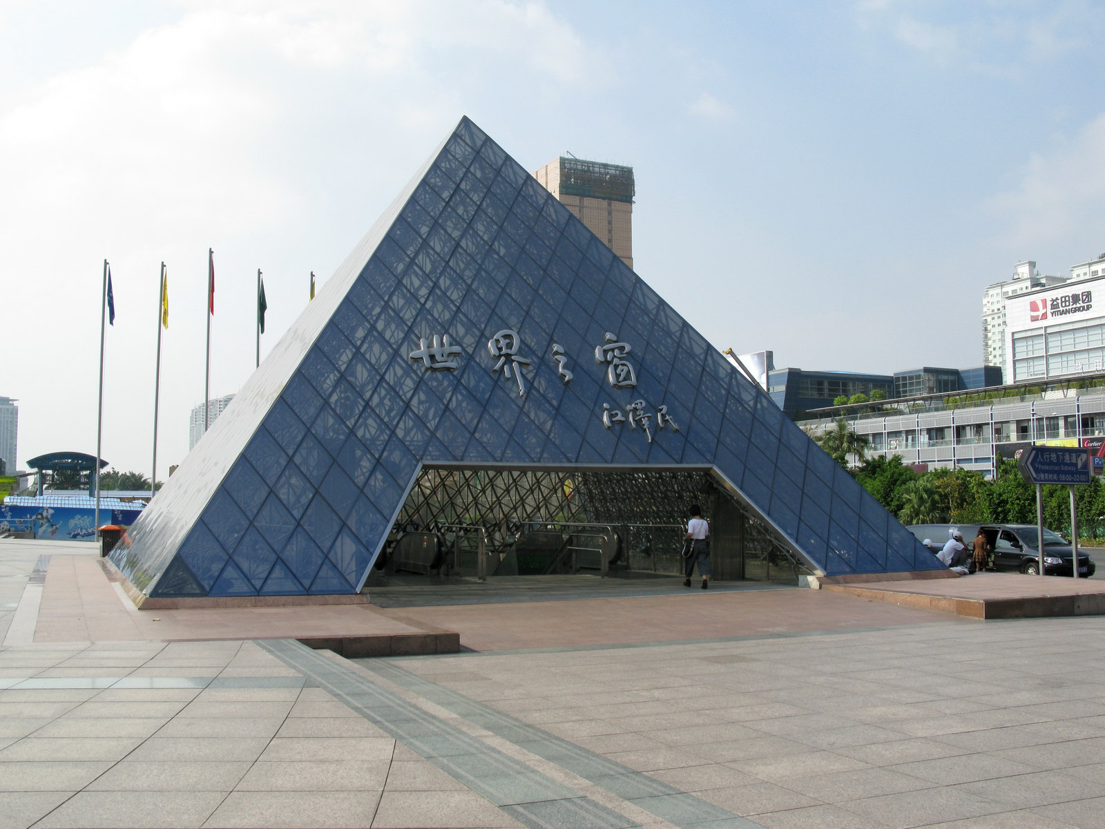 Exit J of Shi Jie Zhi Chuang Station, Shenzhen Metro